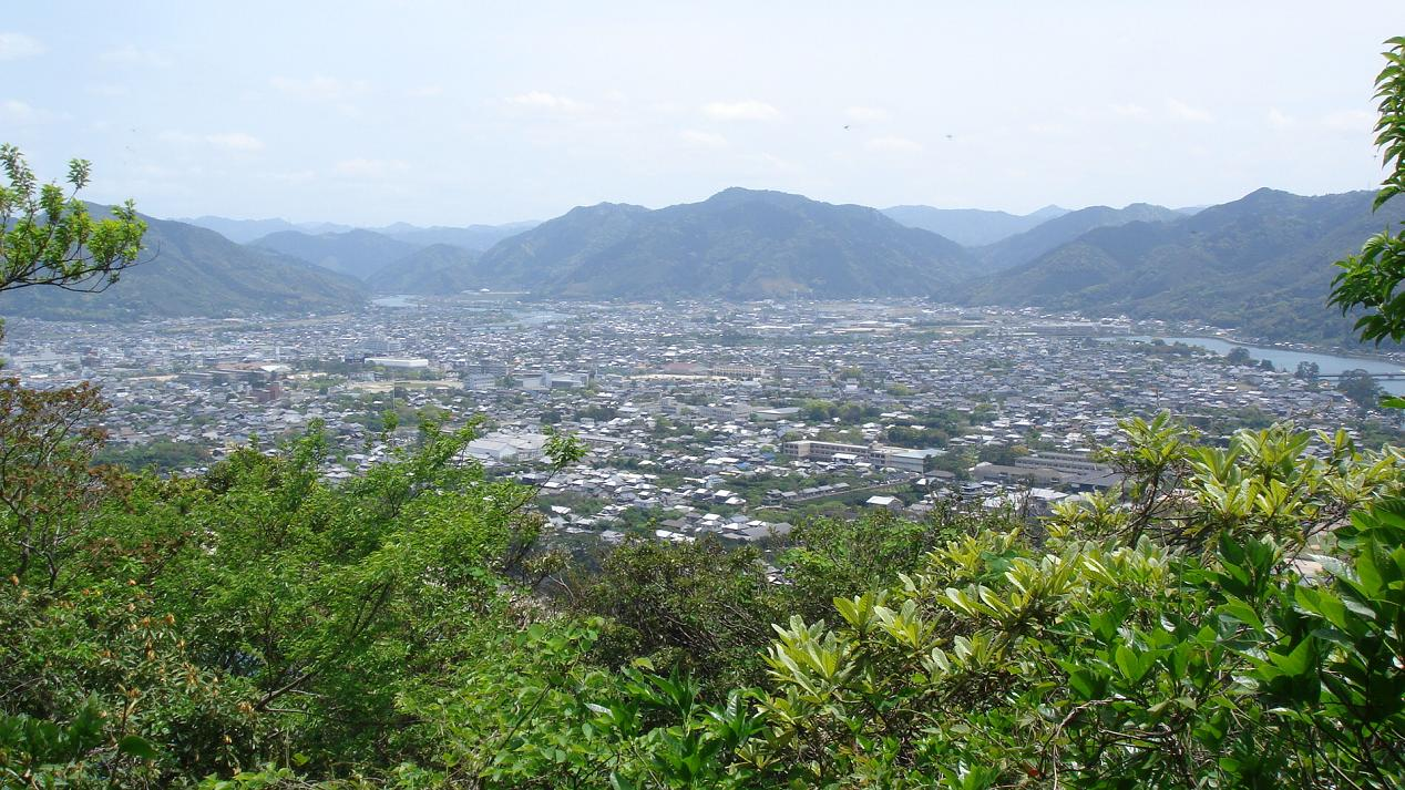 View of Hagi (Yamaguchi, Japan)